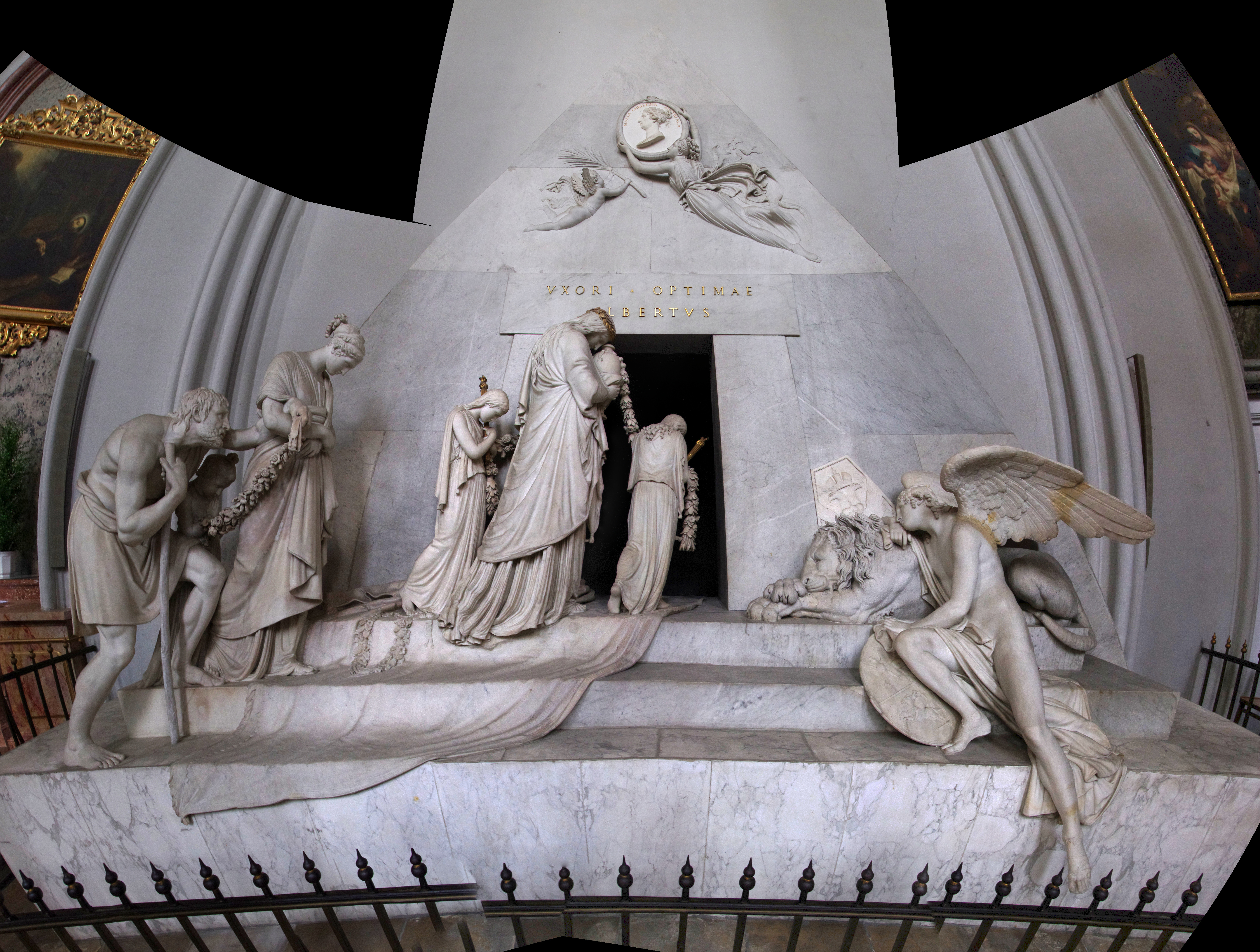 Antonio Canova Cenotaph of Archduchess Maria Christina Augustinerkirche (Wien);panorama made at August 2014, with 5 photos (camera Pentax K-5 II - lens Tamron SP AF 17-50mm F2,8) and stitcher with hugin 2013 (Transverse mercator projection), small correction with gimp, OS Linux Ubuntu 12.04 64bit